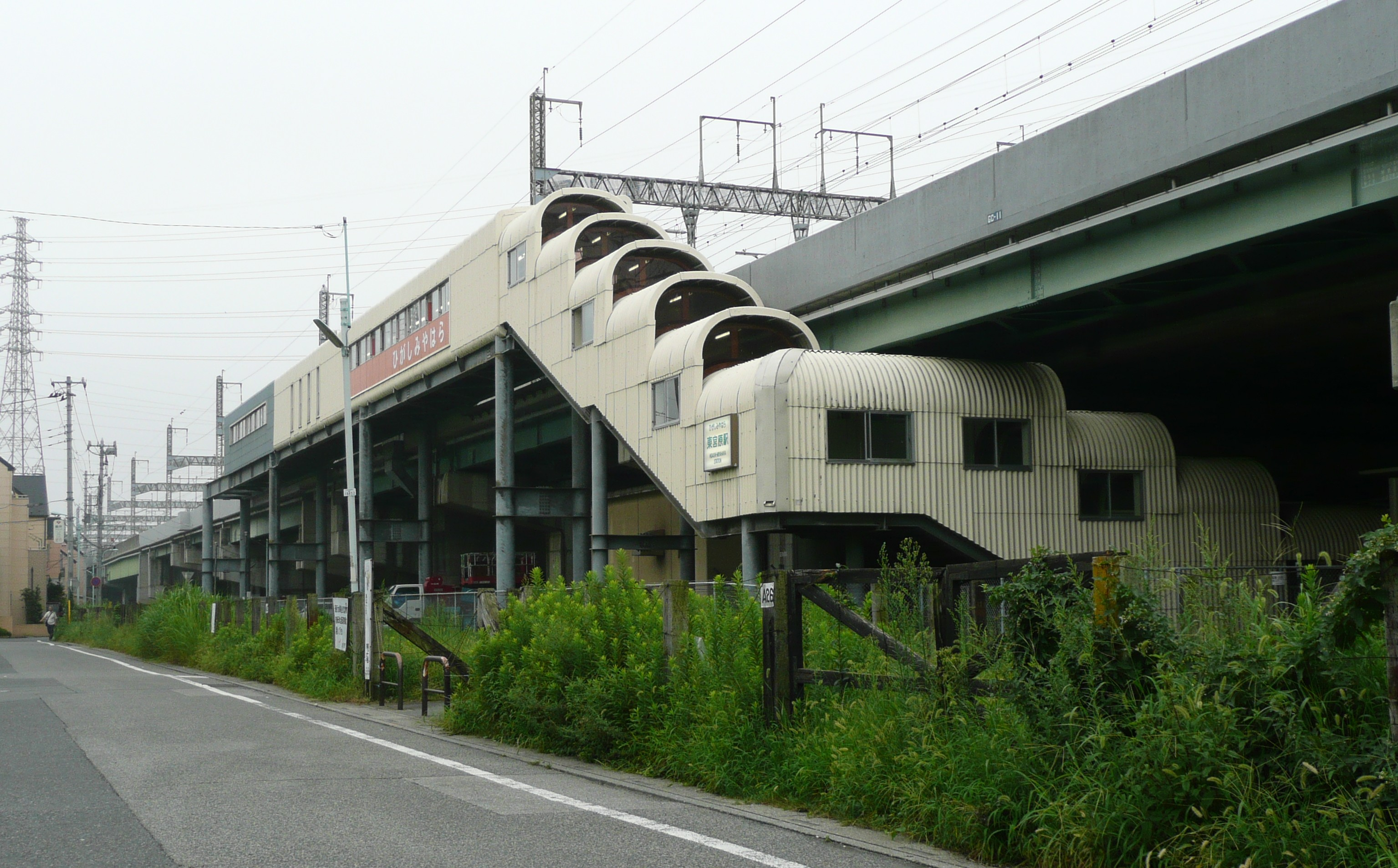 Higashi-Miyahara Station